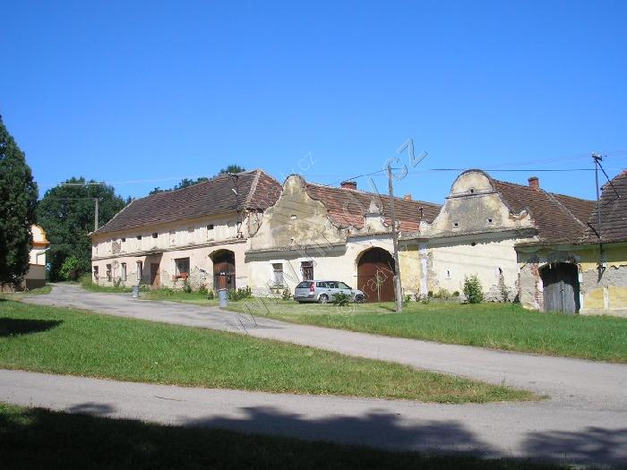 Kdanský dvůr dnes